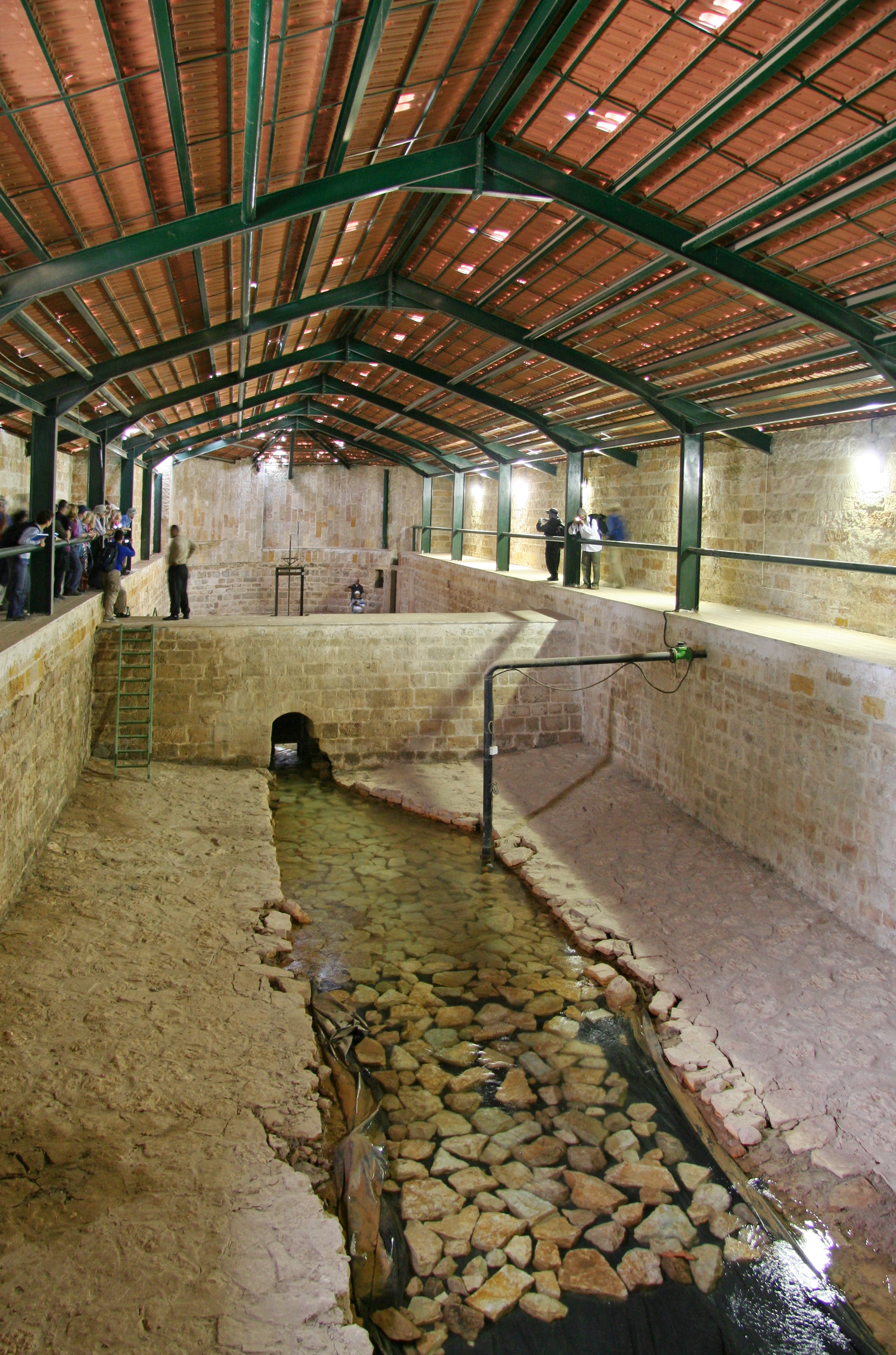 Jericho (more details in the photo's title)